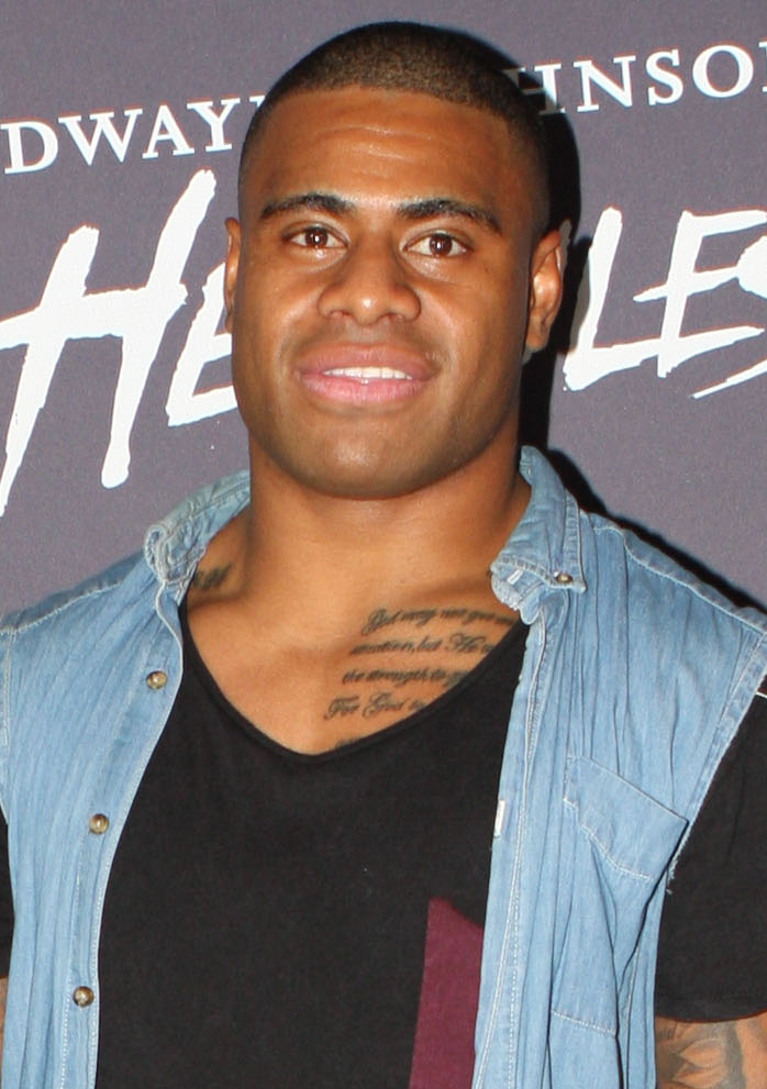 Hercules Premiere, Event Cinemas Sydney Australia